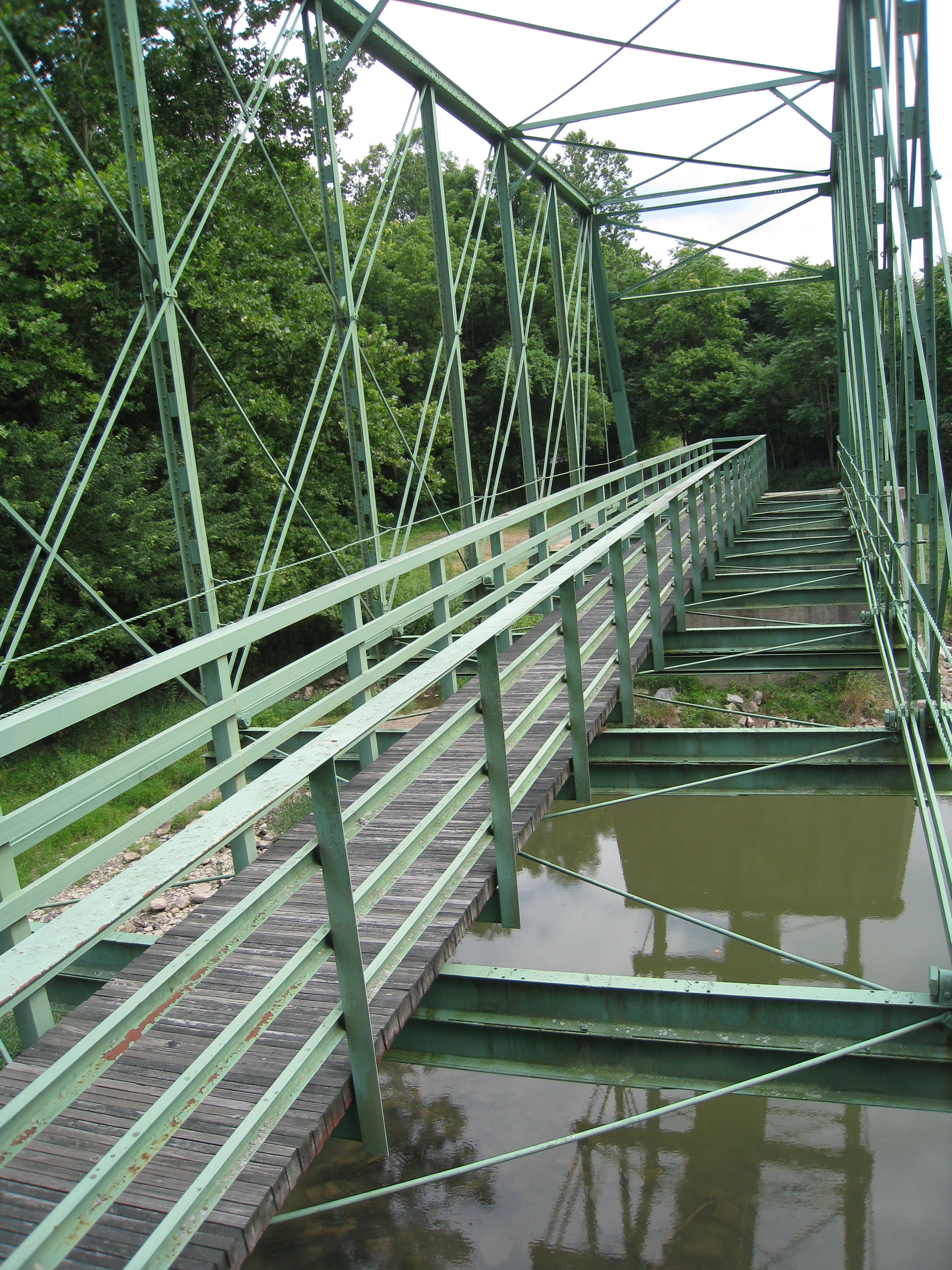 The Old Whipple Truss is an 1874 truss bridge on the Cacapon River at Capon Springs, West Virginia, United States. The Whipple Truss was originally constructed across the South Branch Potomac River near Romney and was re-erected at its present site in 1938 where it was in use until 1991.